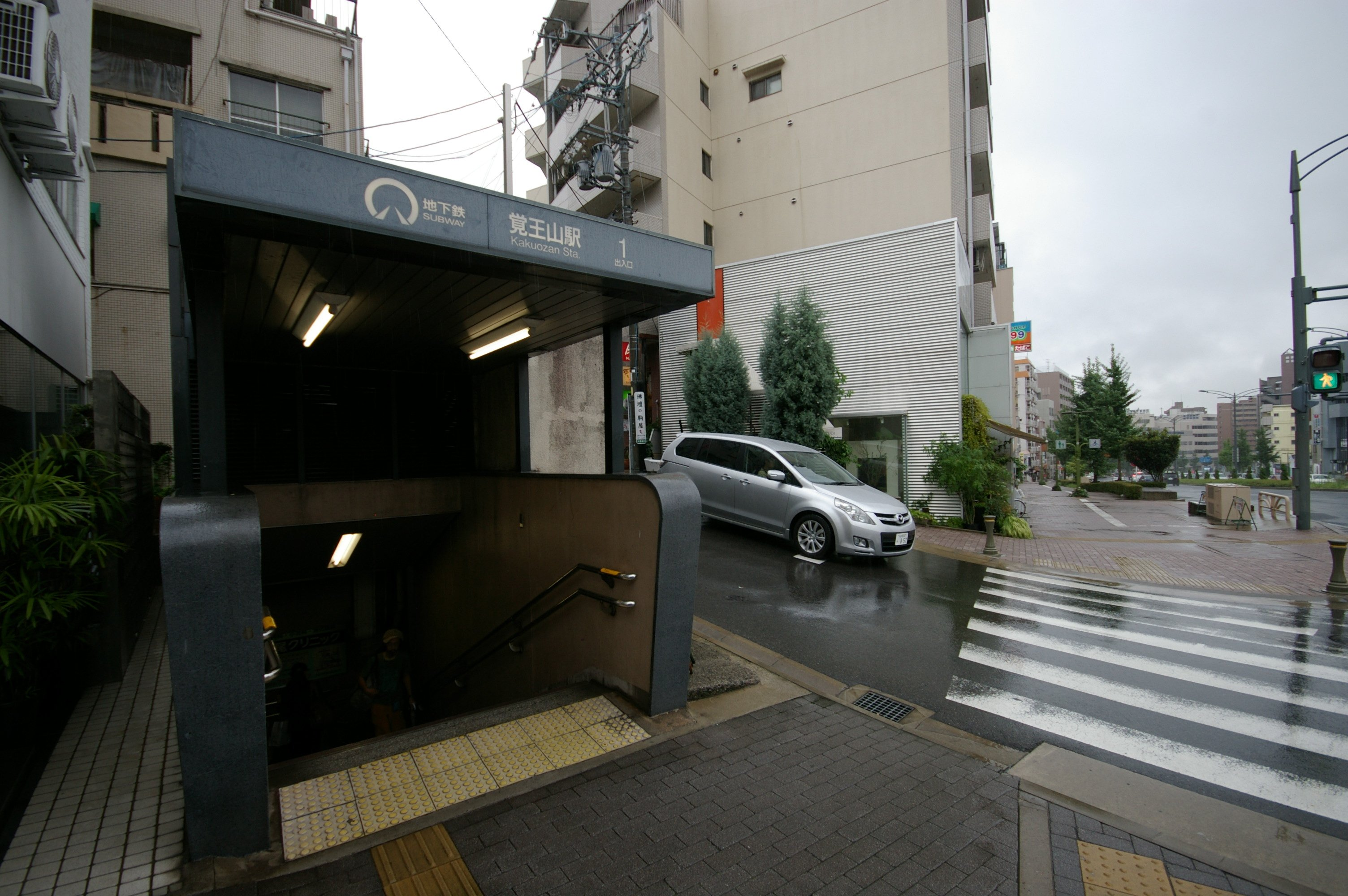 Nagoya Kakuozan Subway Station